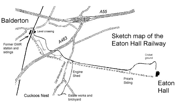 Sketchmap of the former Eaton Hall Railway in relation to modern highways.